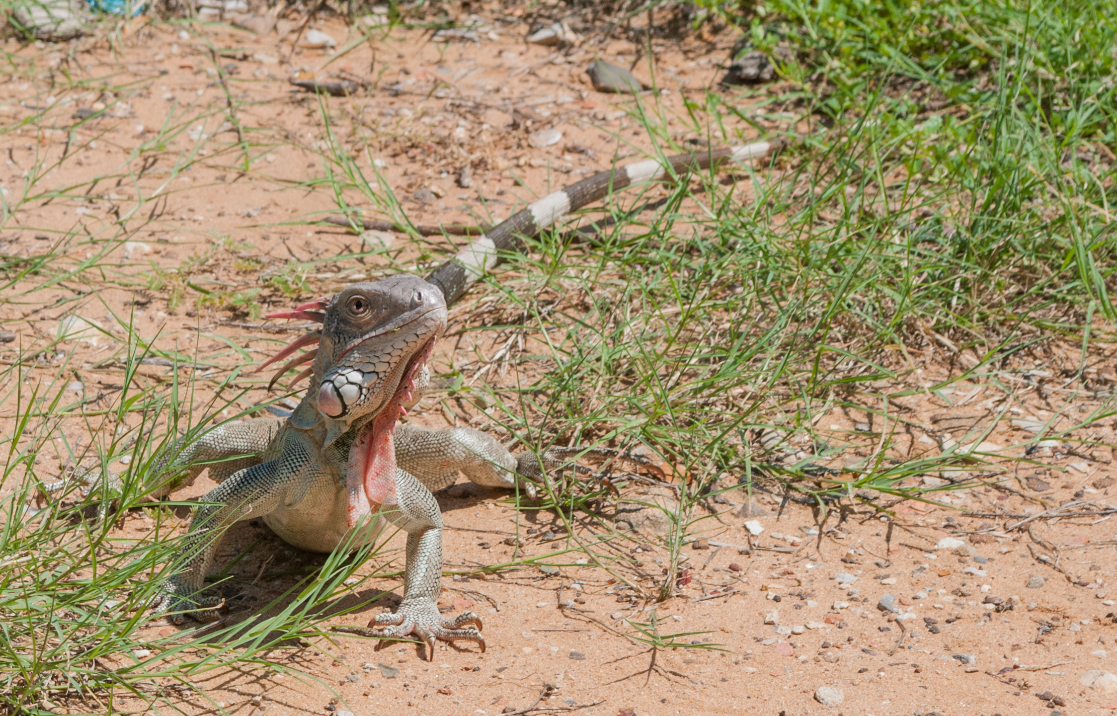 Green Iguana found in the wild feeding on herbs. This animal was 50 meters from the shore of Lake Maracaibo, in the vicinity of la Vereda del lago.